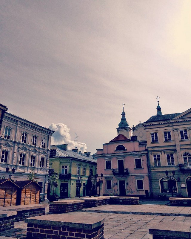 Rynek w Piotrkowie